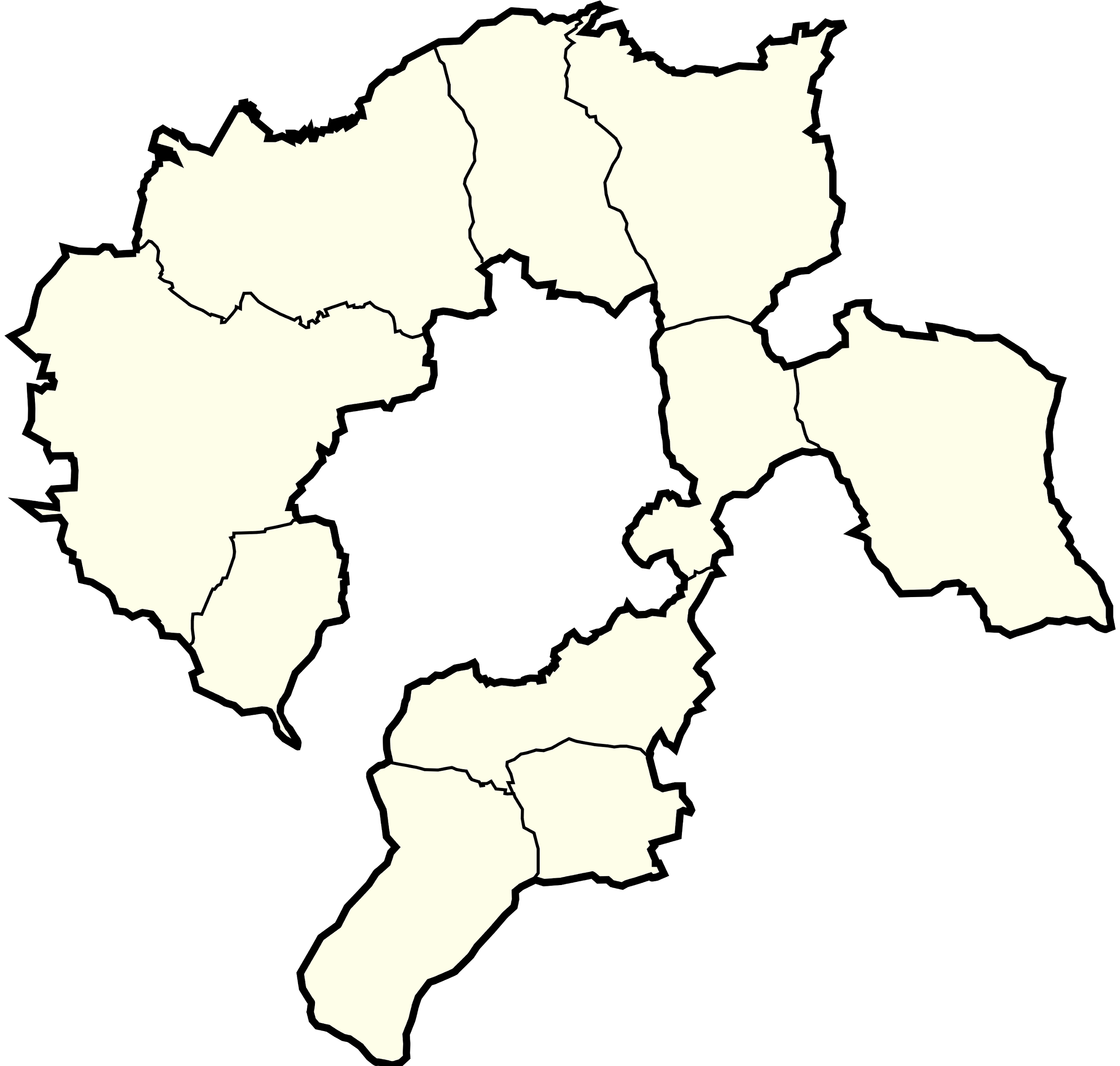 Gminas of Bielsko County